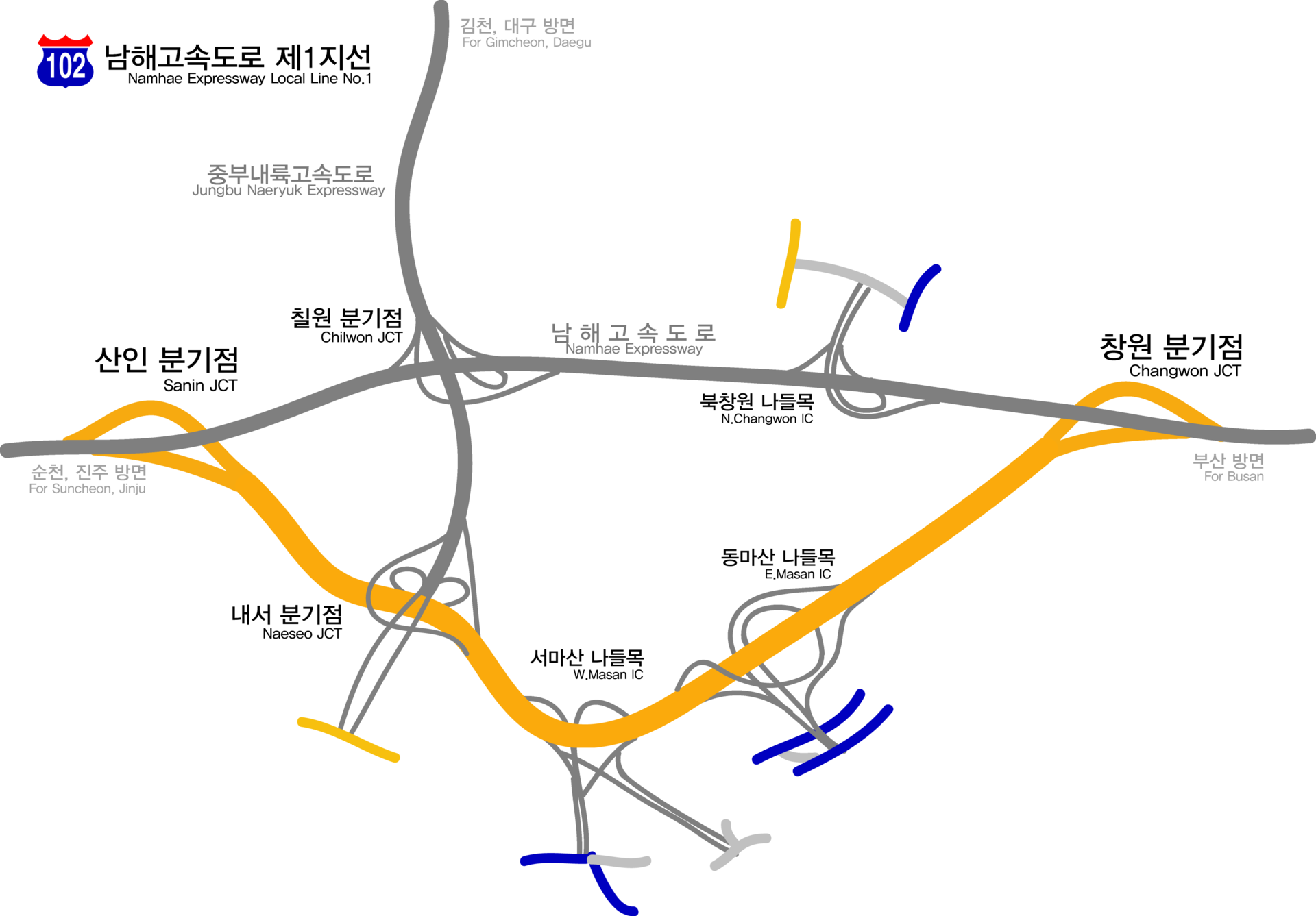 Korean highway line 102 Map